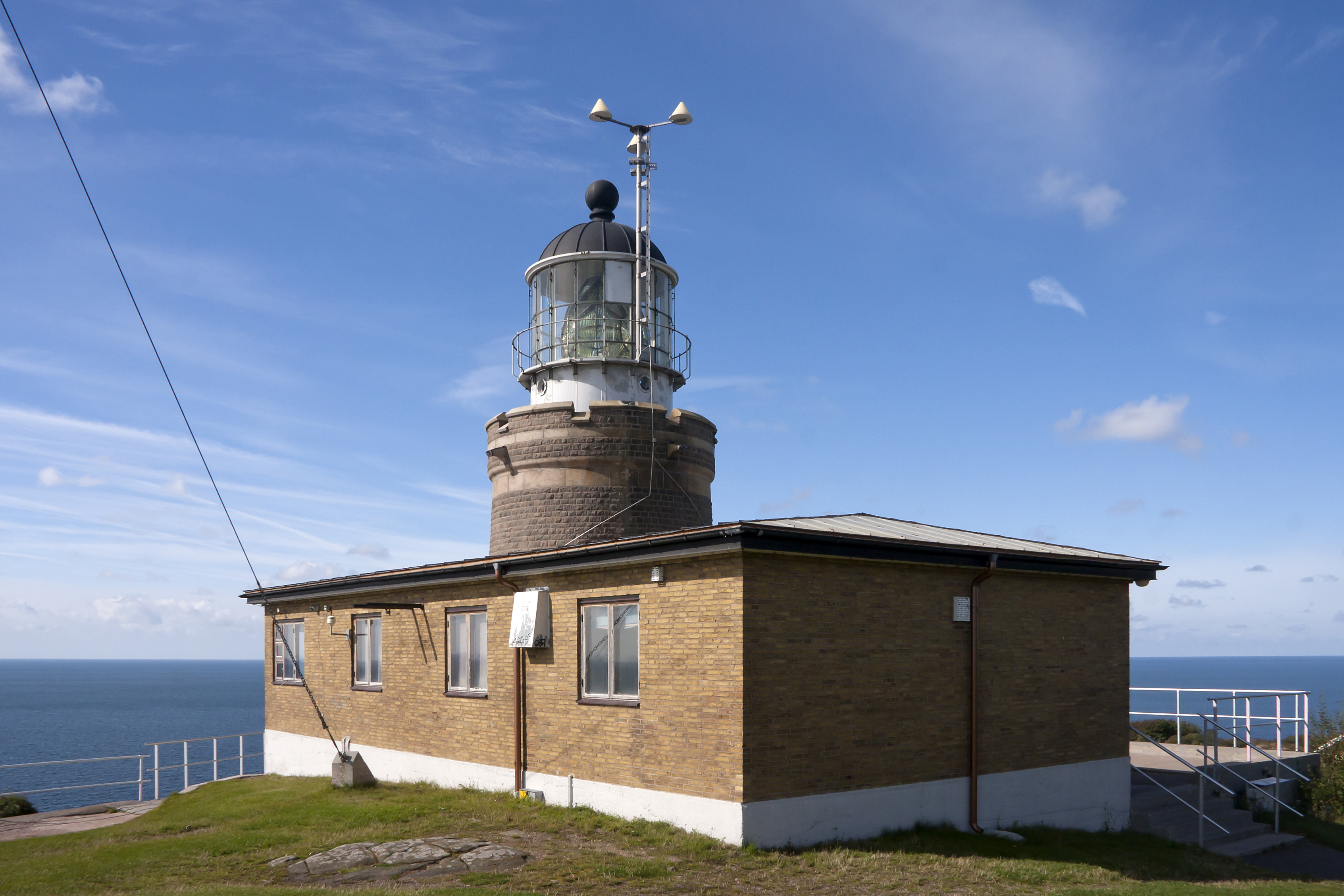 Kullen Lighthouse in northwestern Scania, Sweden.